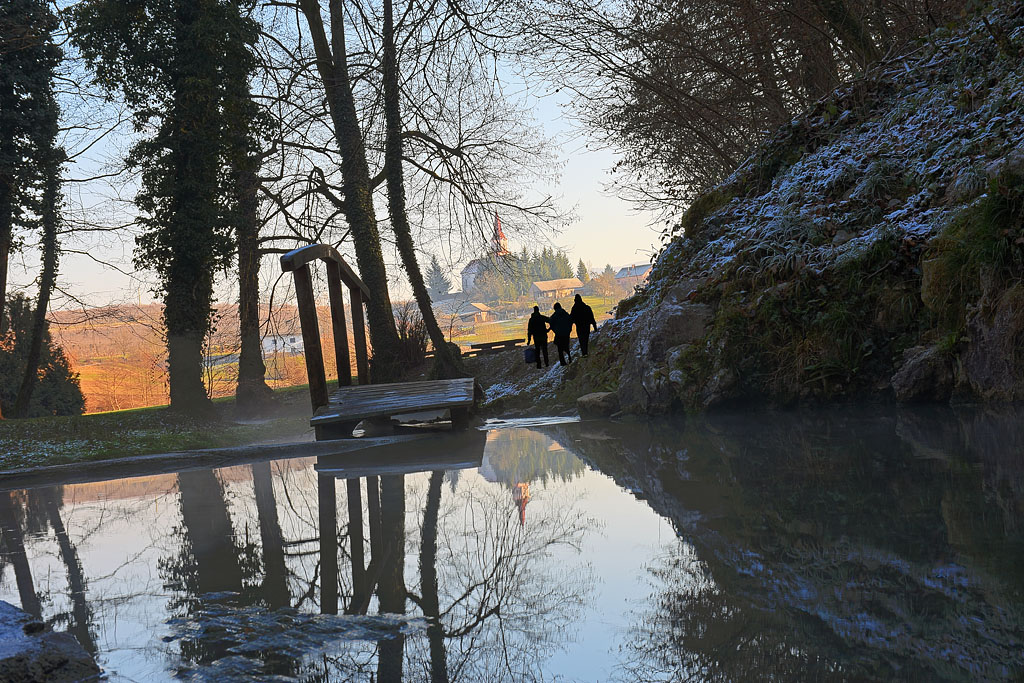 Klevevz is a place in Dolenjska region, where Radulja creek forms small cascades and where there is also an open air termal source.